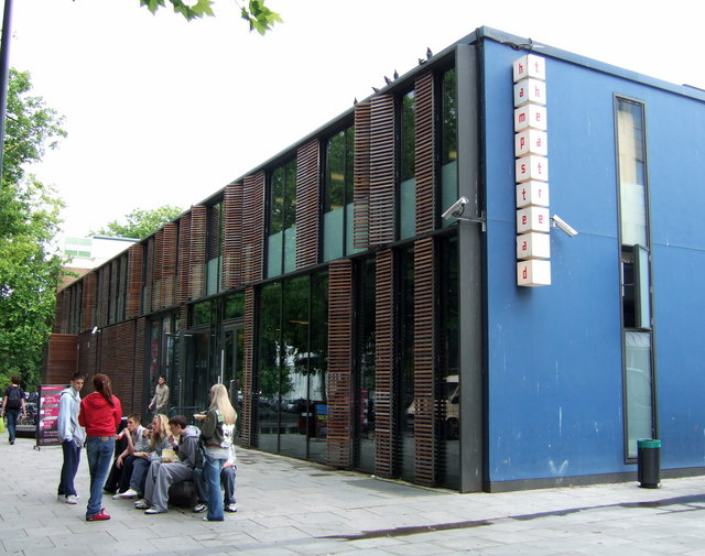 Hampstead Theatre After over forty years in a portakabin the theatre has recently achieved a purpose-built new home which aims to preserve the intimate atmosphere of the old one. The company has always been associated with innovative but accessible plays and strong community/youth involvement.